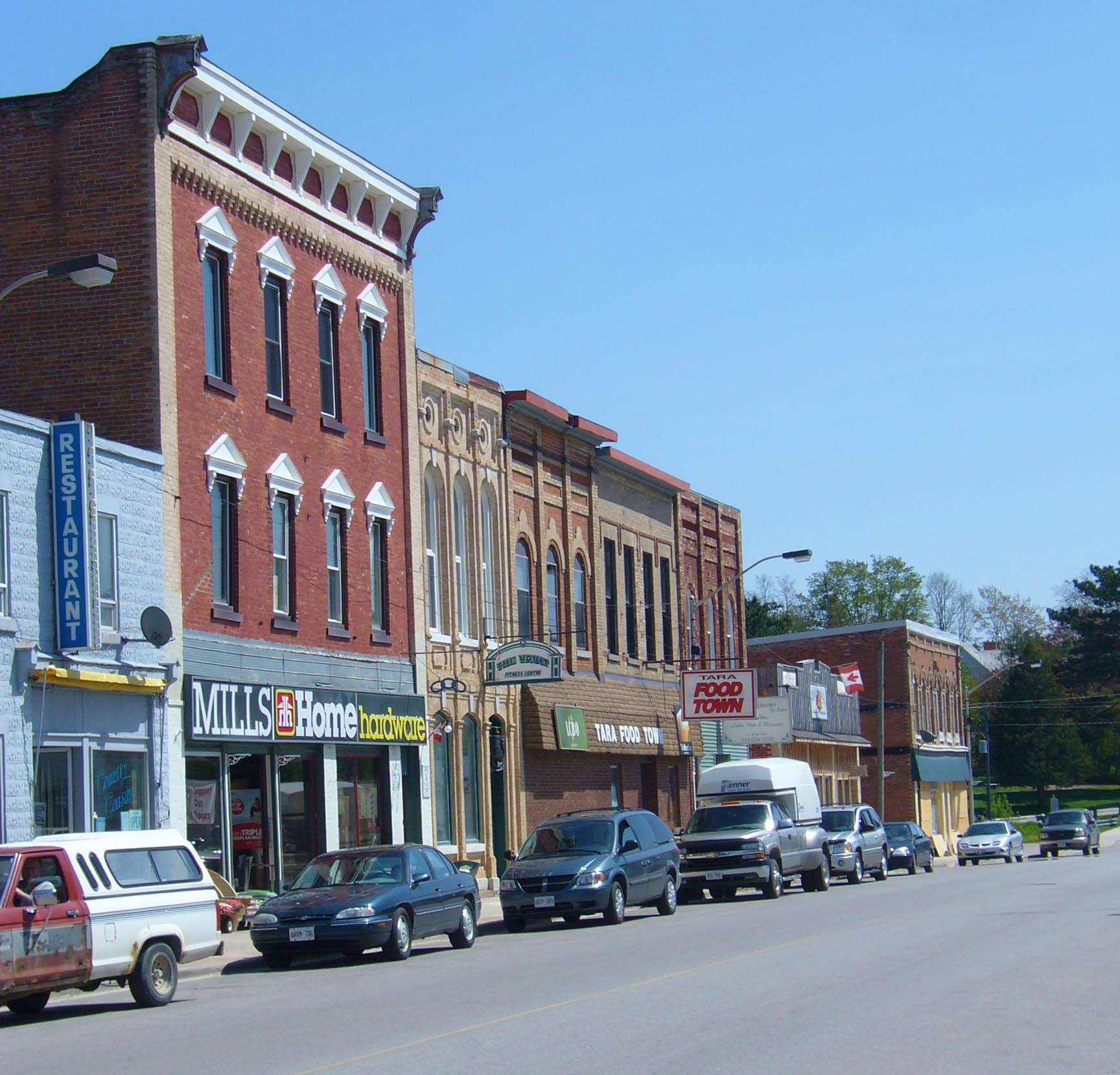 Tara Yonge St. Looking South